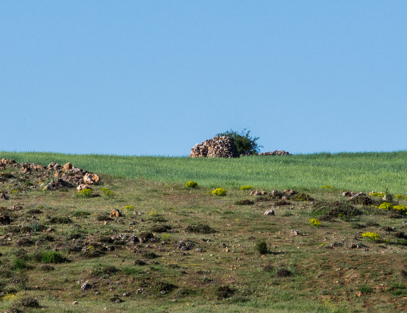 Tower of Layna, Soria, Spain